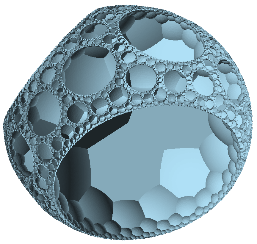 Heptagonal tiling honeycomb Danny Calegari, kleinian, a tool for visualizing Kleinian groups, Geometry and the Imagination, 4 March 2014. - [1]